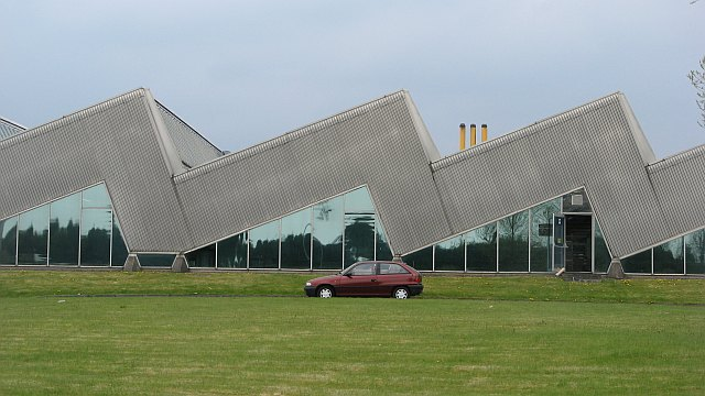 Healthcare Environmental Services Ltd The former Cummins works, Shotts. A very striking building which is now A listed.